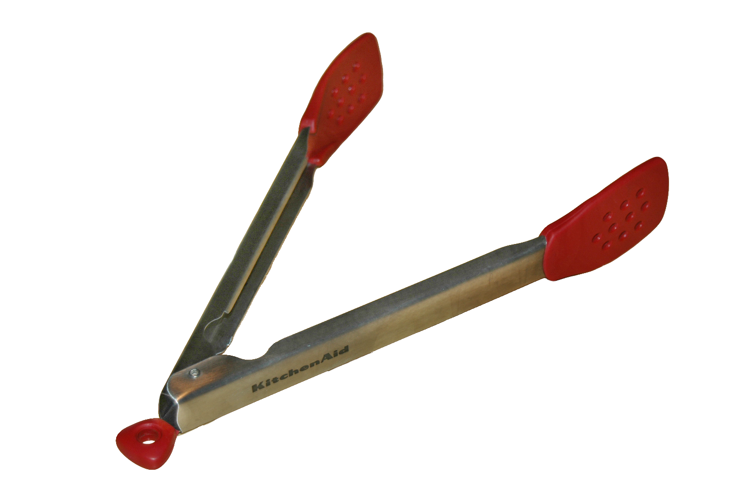 Silicon-coated tongs used for cooking or serving food.